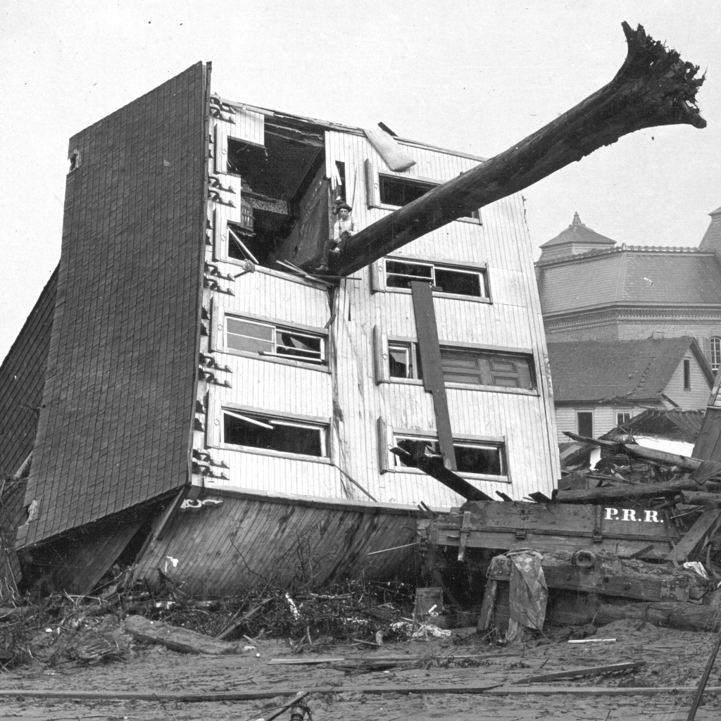 A tree lodged in the Schultz house in the aftermath of the Johnstown Flood of 1889. Incredibly, all 6 people in the house survived.